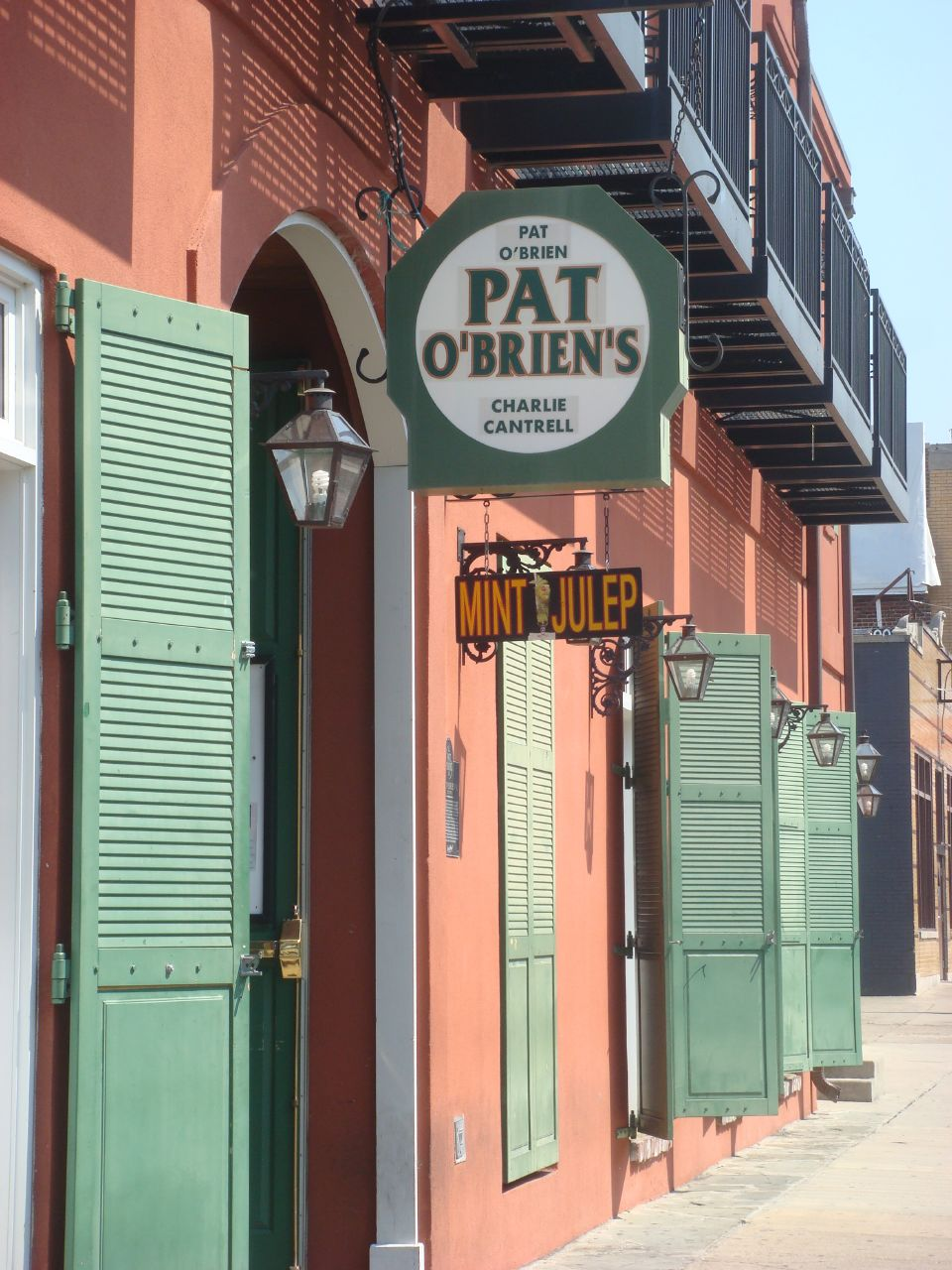 Doorway to "Pat O'Brien's" bar, French Quarter, New Orleans. Exterior daytime view.